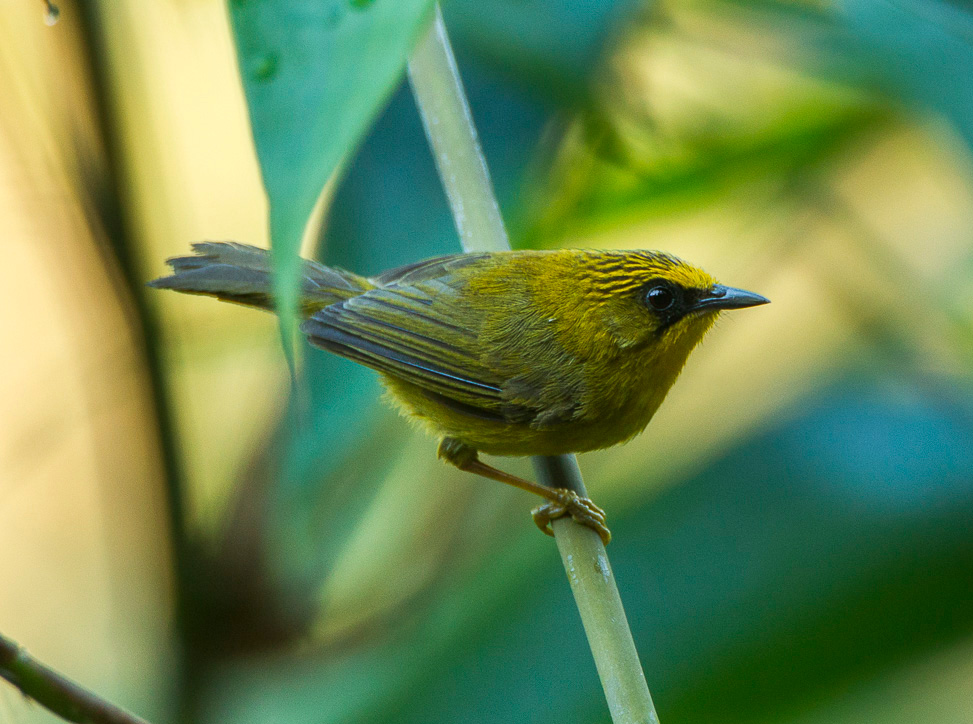 Golden Babbler Stachyris chrysaea in Tingtibi, Bhutan